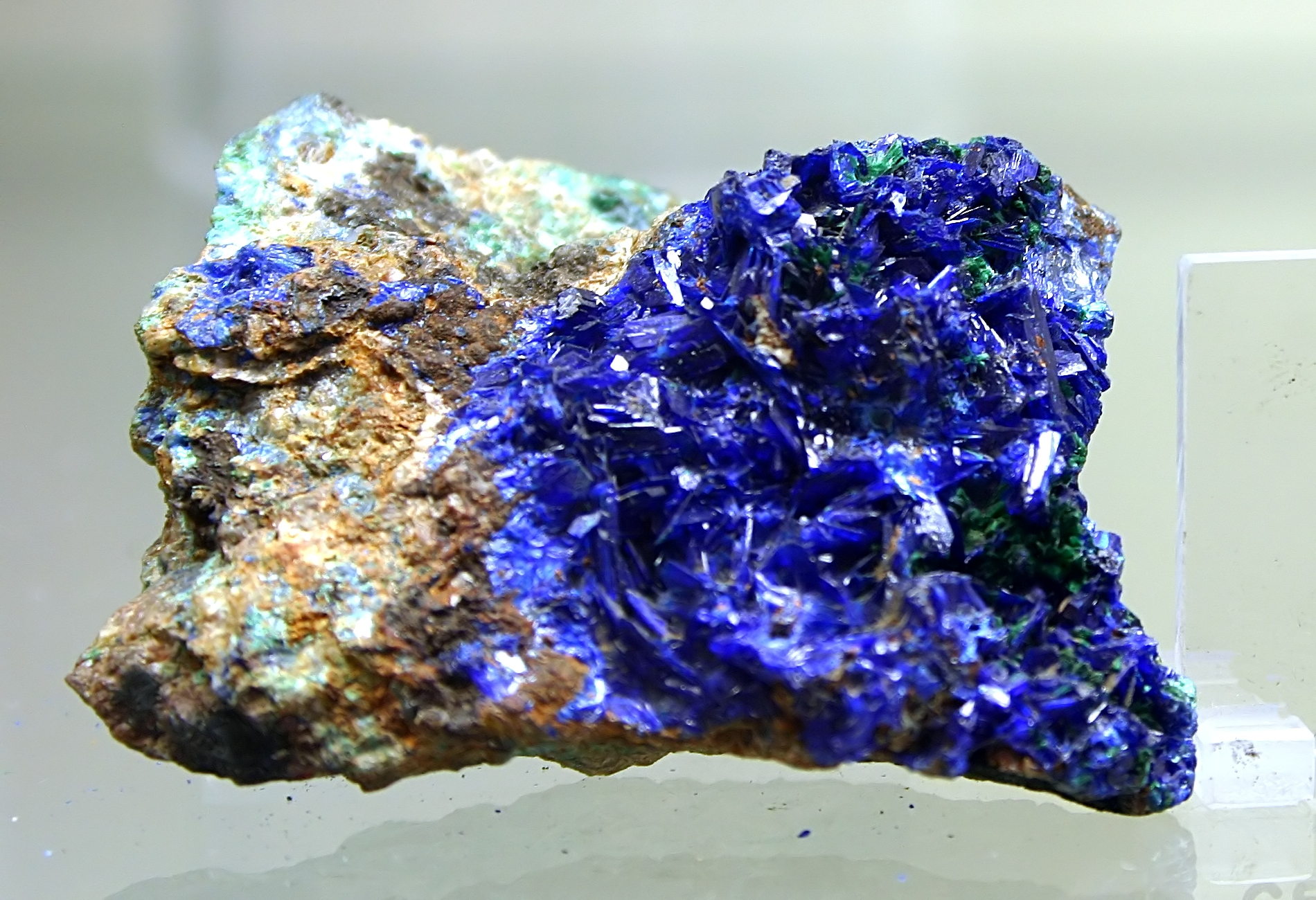 Linarite. Locality: Catamarca, Argeninia. Exposed in the Mineralogical Museum, Bonn, Germany